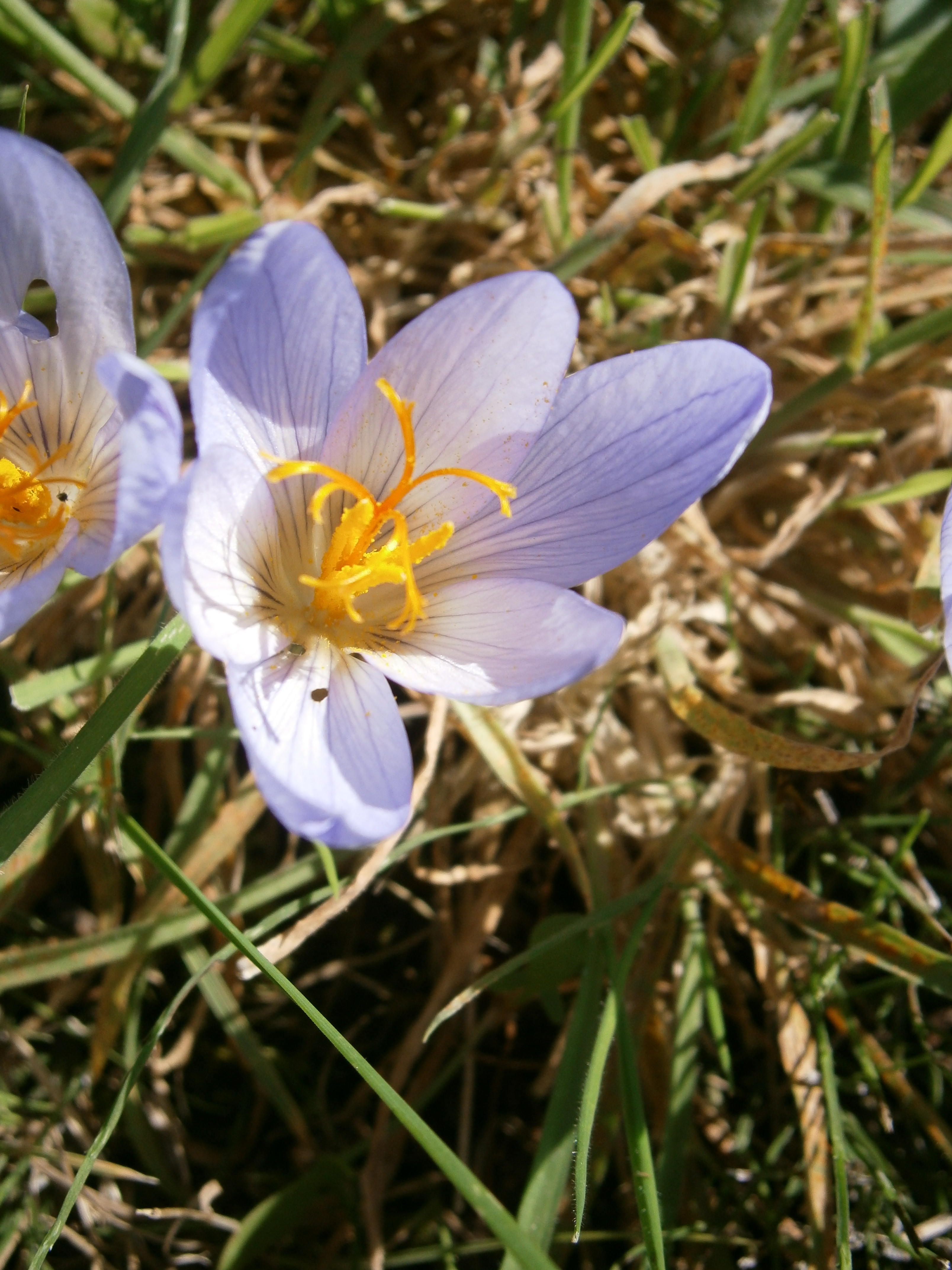 Crocus cancellatus close-up